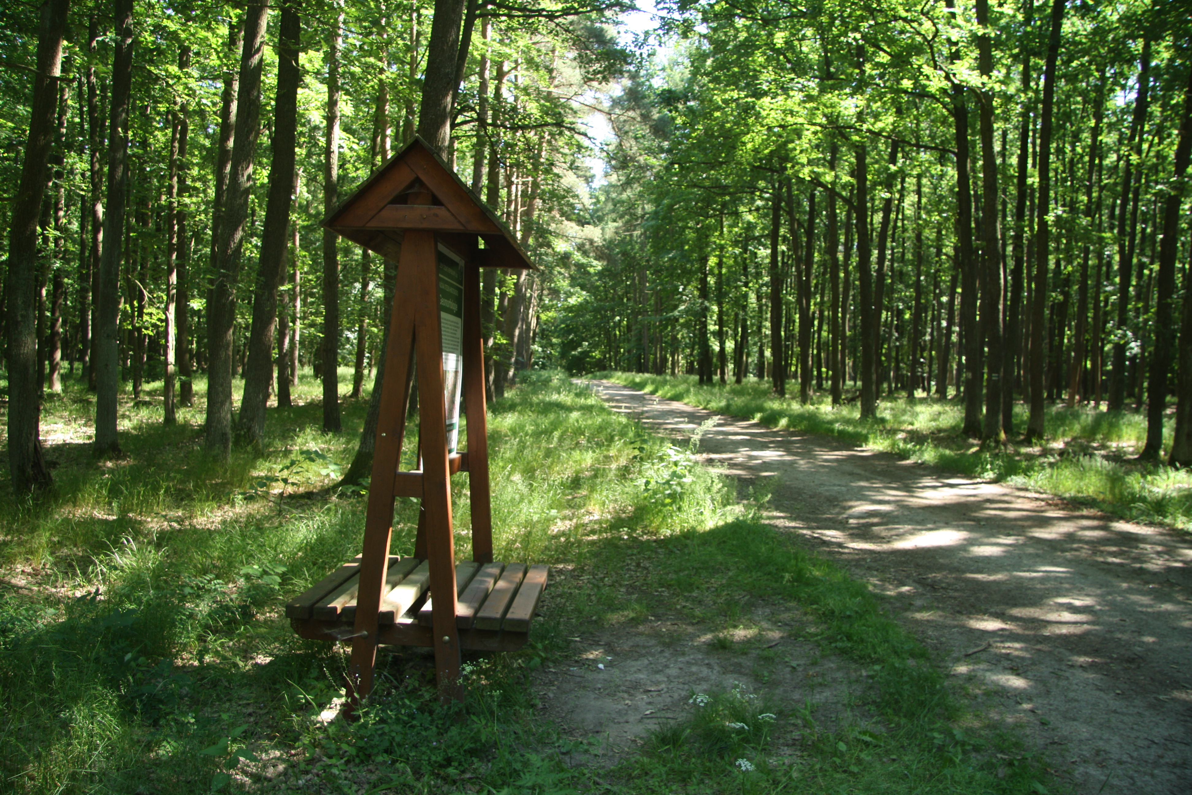 Way of educational trail Hrotovicko and biketrail 401 near Hrotovice, Třebíč District.